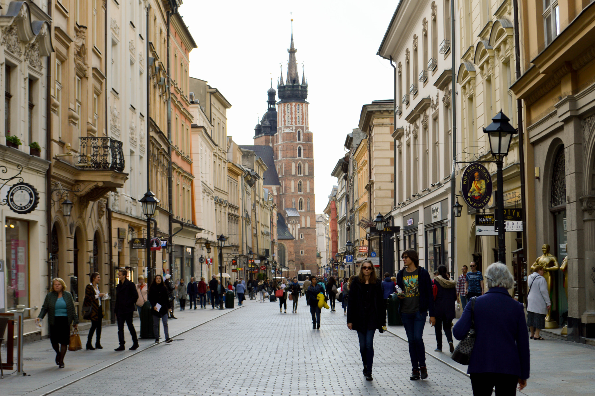 500px provided description: Central Krakow [#city ,#street ,#sidewalk ,#taxi ,#pedestrian ,#old town ,#zebra crossing ,#rush hour ,#crosswalk ,#clock tower ,#city street ,#town square]